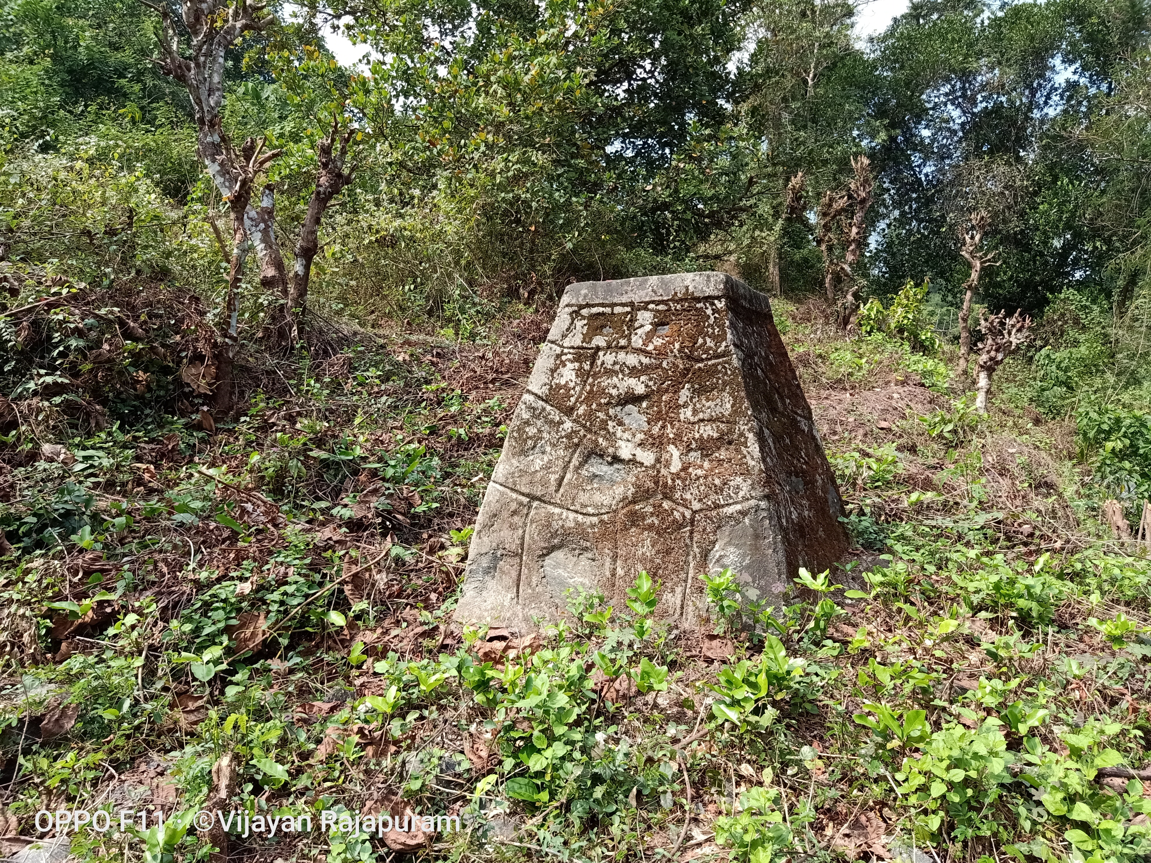 സർക്കാർ ഭൂമിയുടെ അതിർവരമ്പുകൾ അടയാള പെടുത്താൻ ഉപയോഗിക്കുന്ന കല്ലിനാൽ കെട്ടി ഉണ്ടാക്കുന്ന ഒരു കുറ്റി ആണ് ജണ്ട